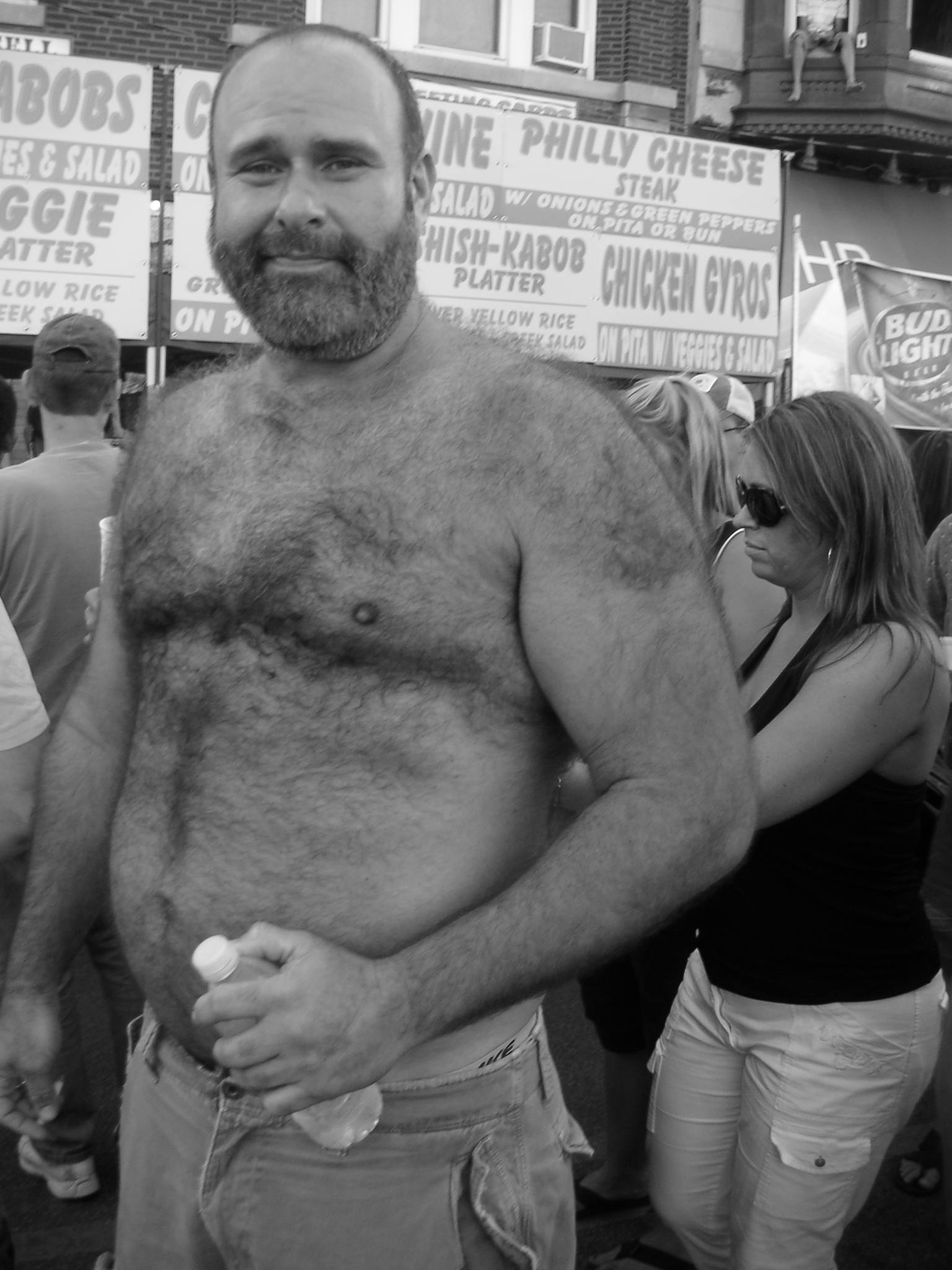 Member of the Bears